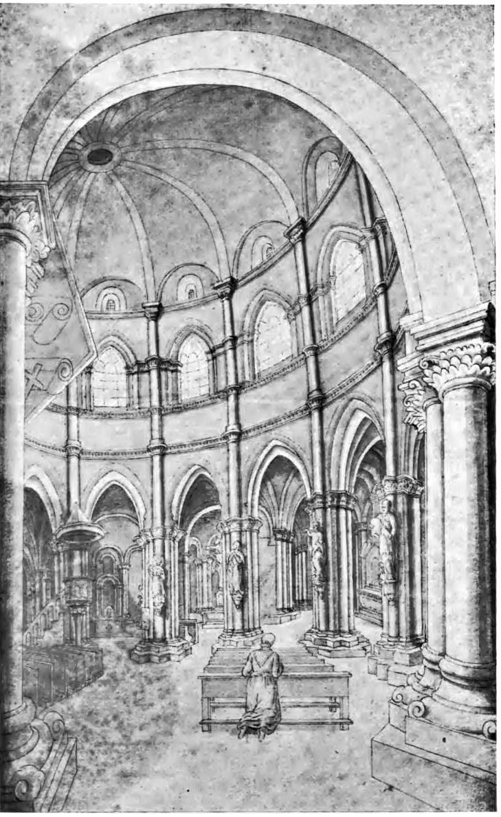 Worms, Johanneskirche innen, um 1800